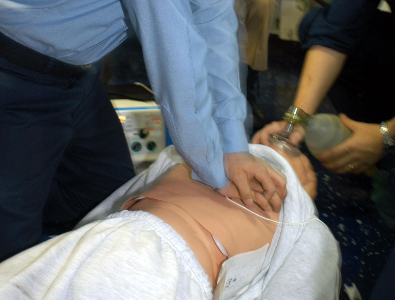 Atlantic Ocean (Apr. 21, 2004) - Hospital Corpsman 3rd Class Flowers administers chest compressions to a simulated cardiac arrest victim during drills aboard the conventional powered aircraft carrier USS John F. Kennedy (CV 67). Kennedy is completing final Carrier Qualifications (CQ) prior to her upcoming scheduled deployment. U.S. Navy photo by Photographer's Mate Airman Apprentice Nicholas Garrett. (RELEASED)